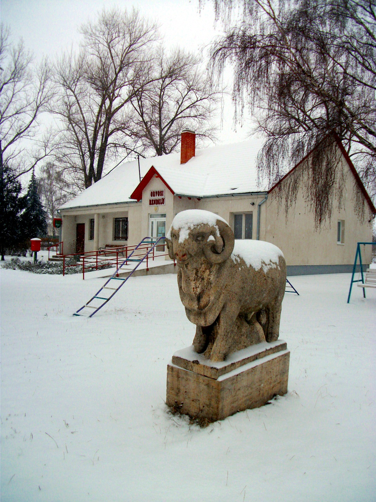 Sheep statue in Zichyújfalu, Hungary